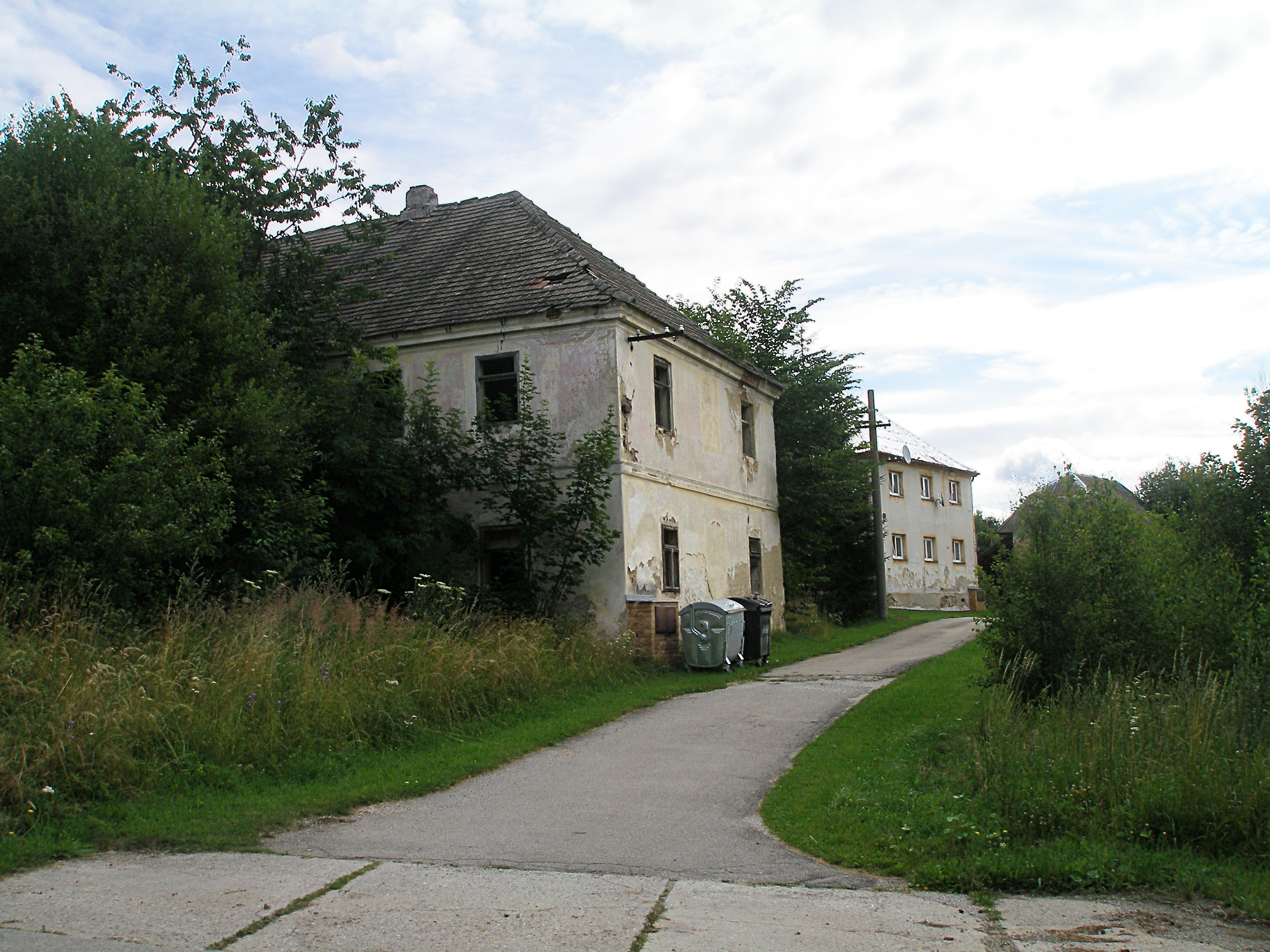 Houses No. 475 and 477 in Třebovice (in 2011 part of the military area Boleticem from 1st January 2016 part of the municipality Ktiš)